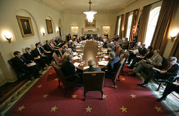 A meeting in the Cabinet Room, 2006.